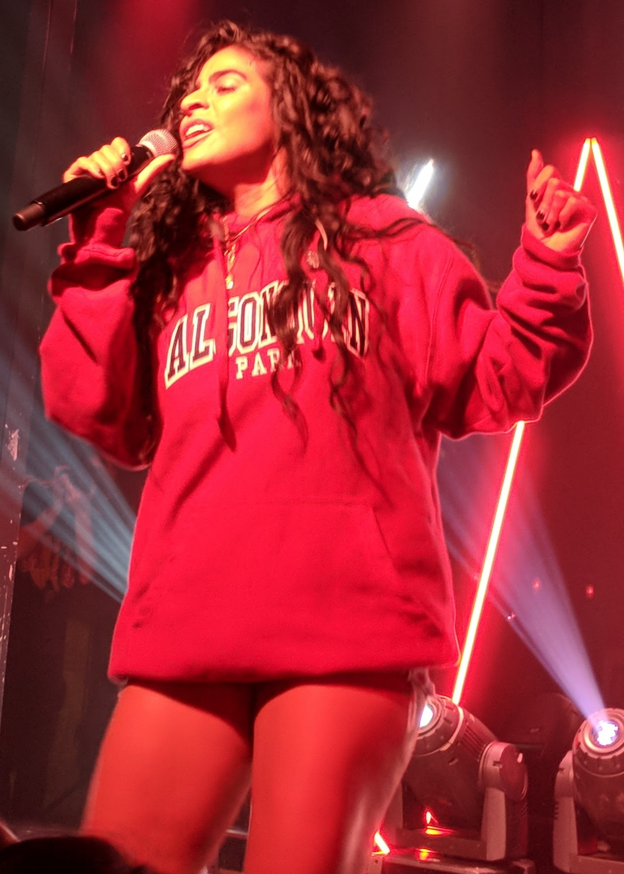 Jessie Reyez performs at Verizon x Pandora Presents at Rough Trade in Brooklyn